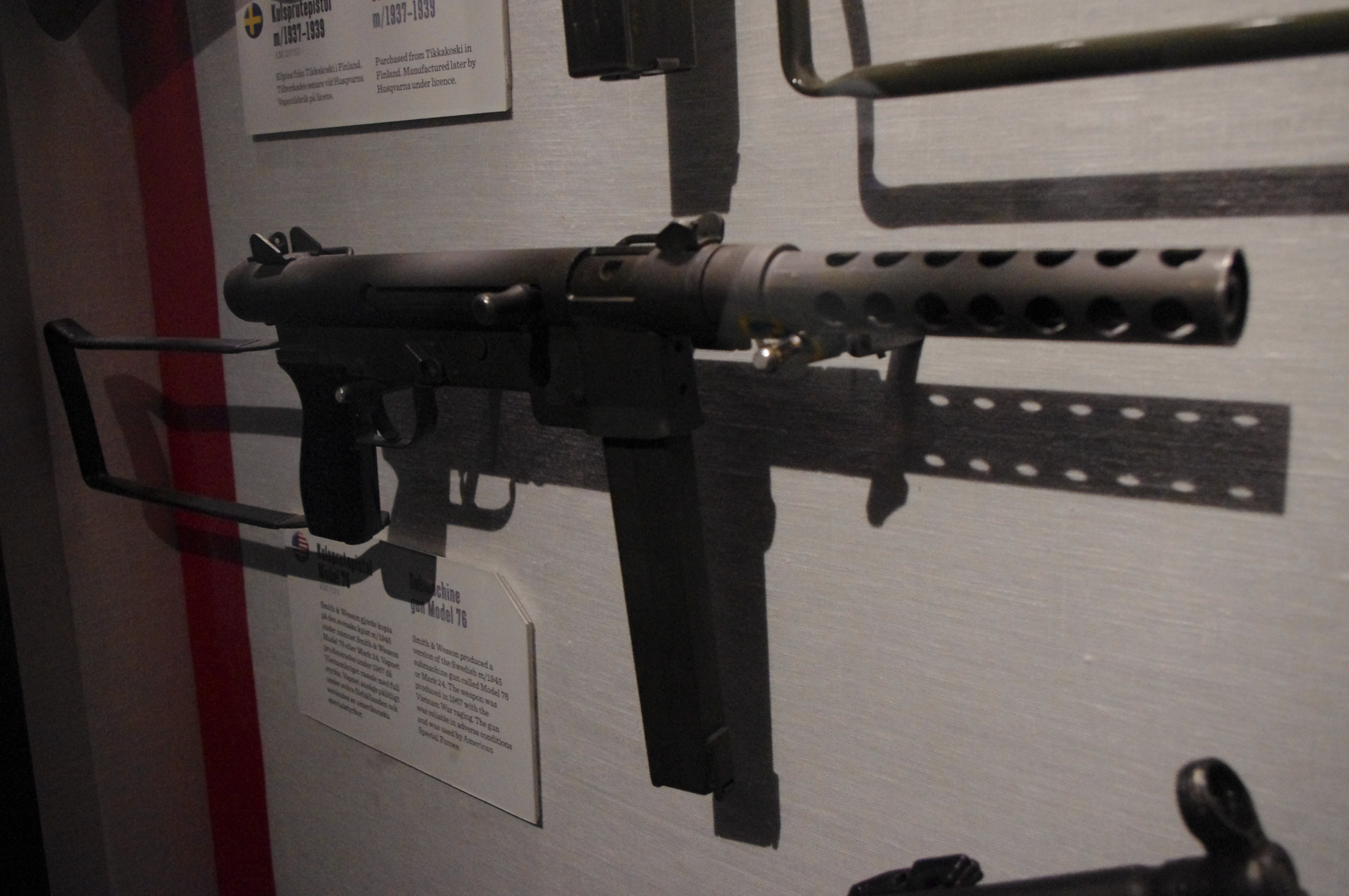 Smith & Wesson M76. US made copy of the Swedish m/1945.